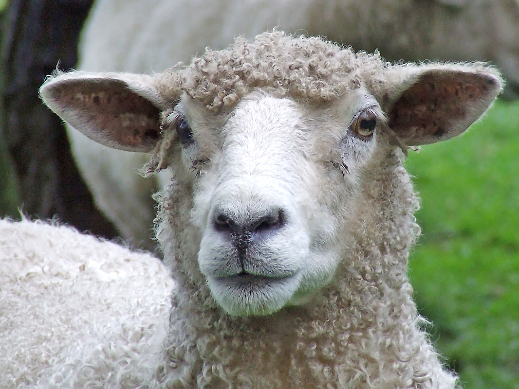 A Cotswold ewe